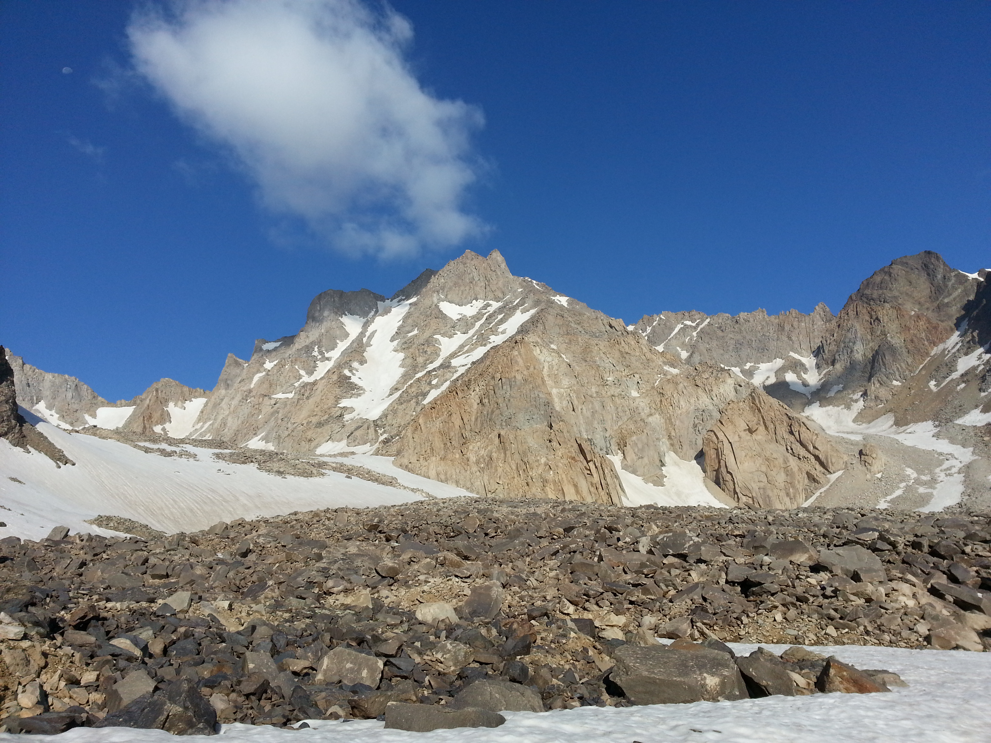 Mian-Seh-Chal summit located in Takht-e Suleyman Massif in Alborz Range with 4348 meters height.